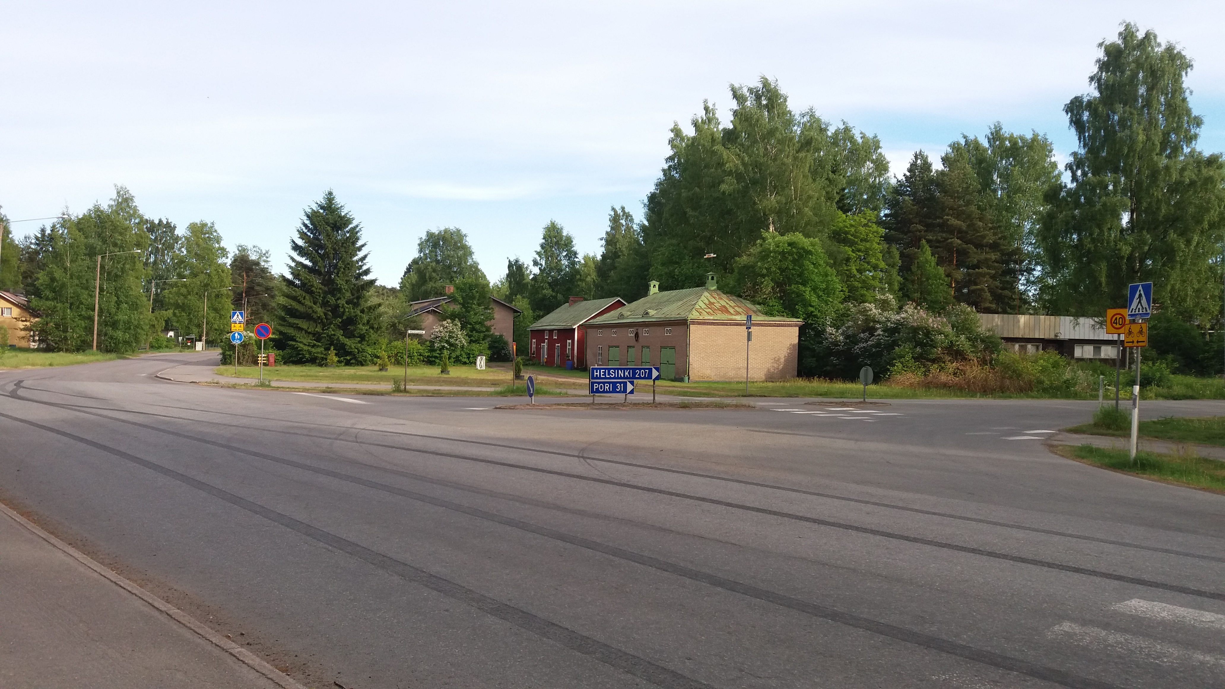 View from Merstola, Harjavalta, Finland.